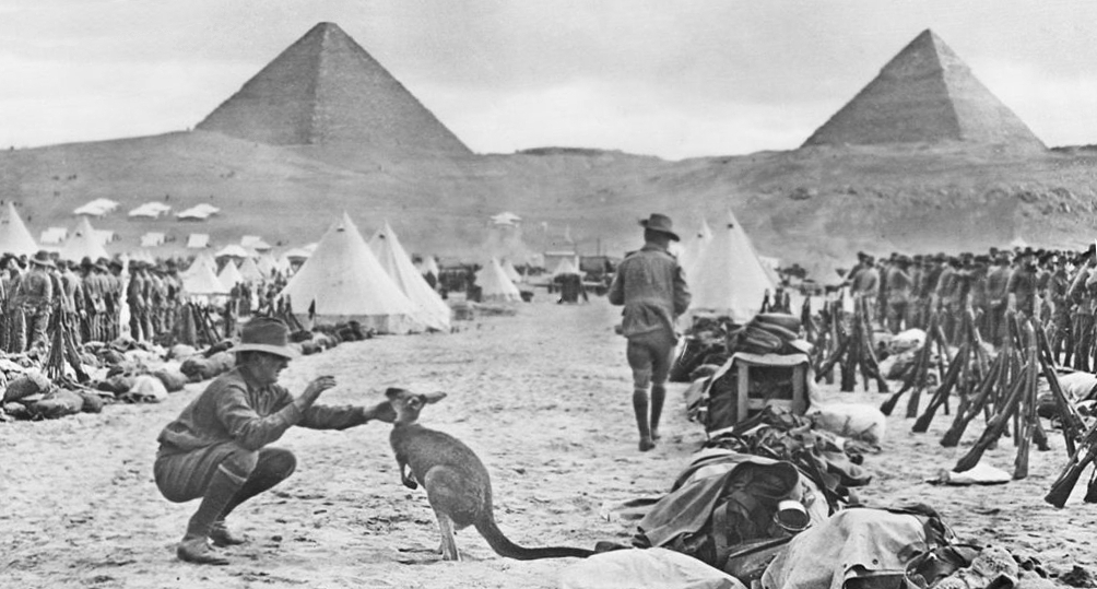 AWM Caption: Lines of the 9th and 10th Battalions at Mena Camp, looking towards the Pyramids. The soldier in the foreground is playing with a kangaroo, the regimental mascot. Many Australian units brought kangaroos and other Australian animals with them to Egypt, and some were given to the Cairo Zoological Gardens when the units went to Gallipoli.